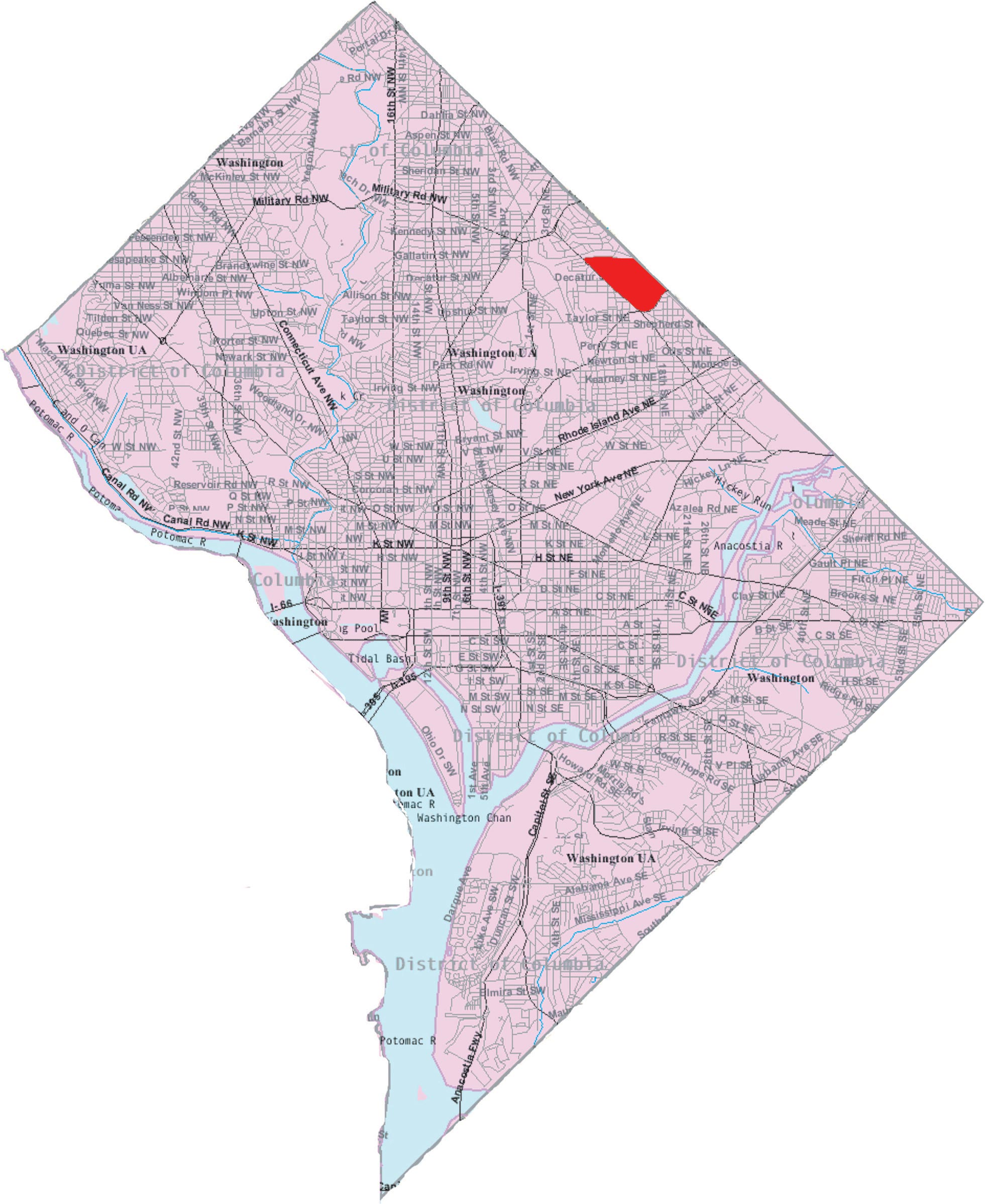 This image is a modified version of a self-generated reference map from the U.S. Census Bureau's American Factfinder at by Wikipedia user Msclguru.